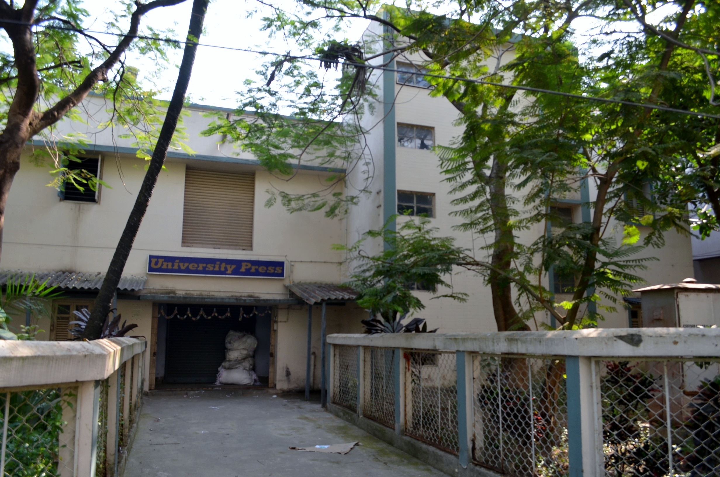 Jadavpur University Printing Press